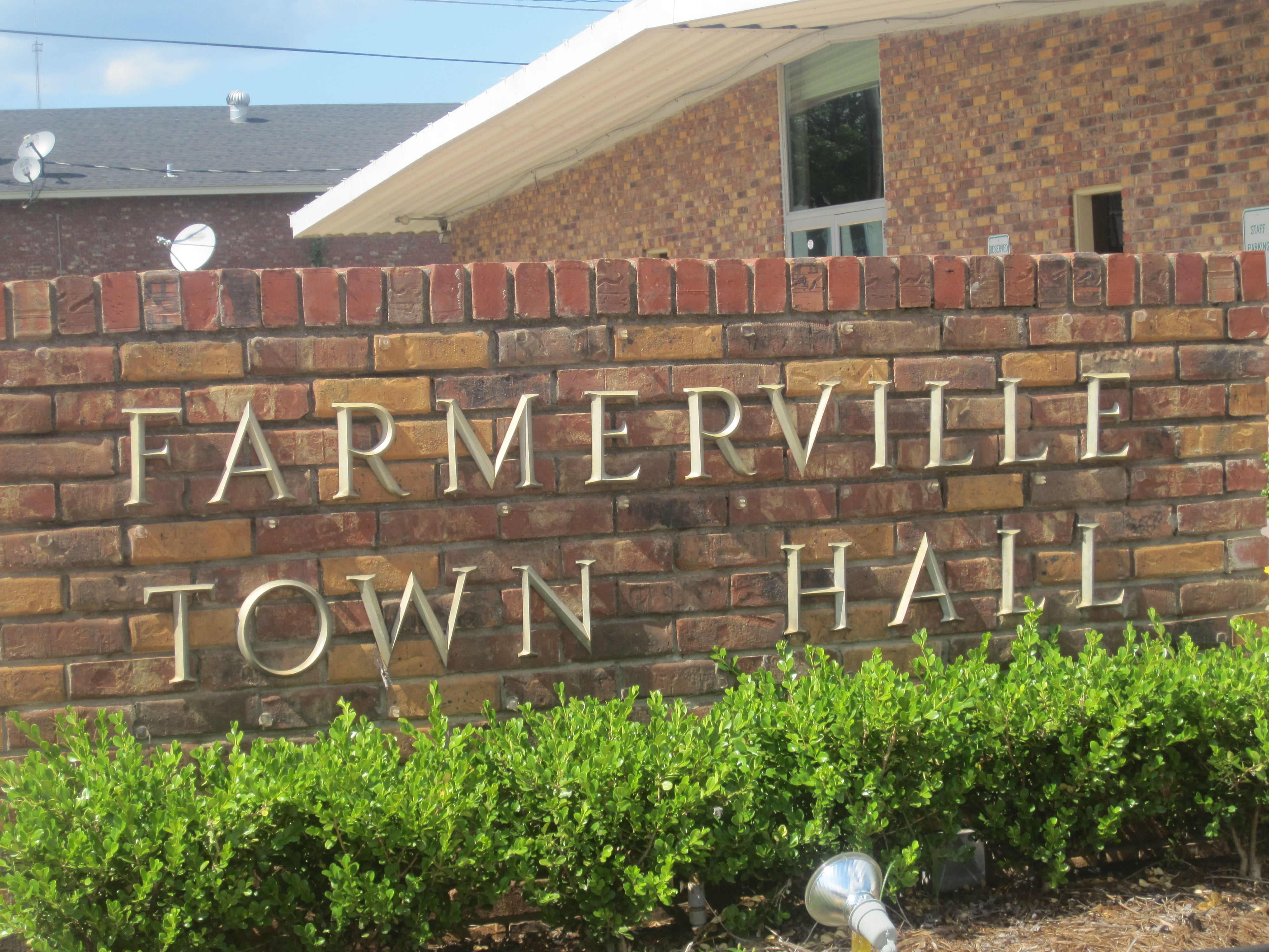 I took photo in Farmerville, LA, with Canon camera.